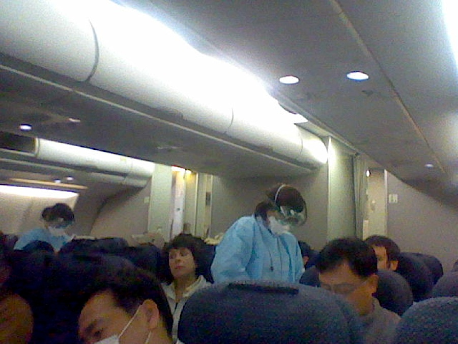 Health officials check airline passengers before allowing disembarkation of an international flight back to Japan (regretfully all I had was my low resolution Nintendo DS to take a photo with)